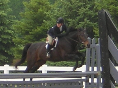 "Bella Beane" (1997-2007), a thoroughbred mare, in flight at a local show, ridden by uploader's daughter